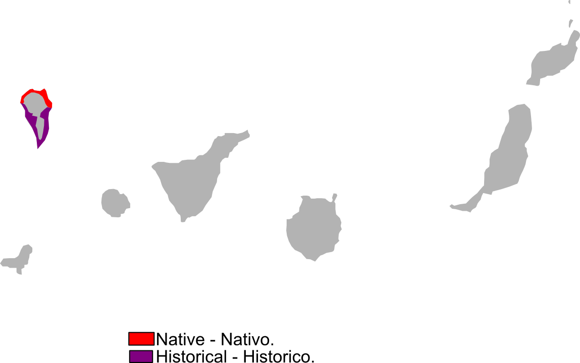 Gallotia auaritae distribution map.